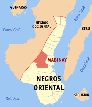 Map of Negros Oriental showing the location of Mabinay